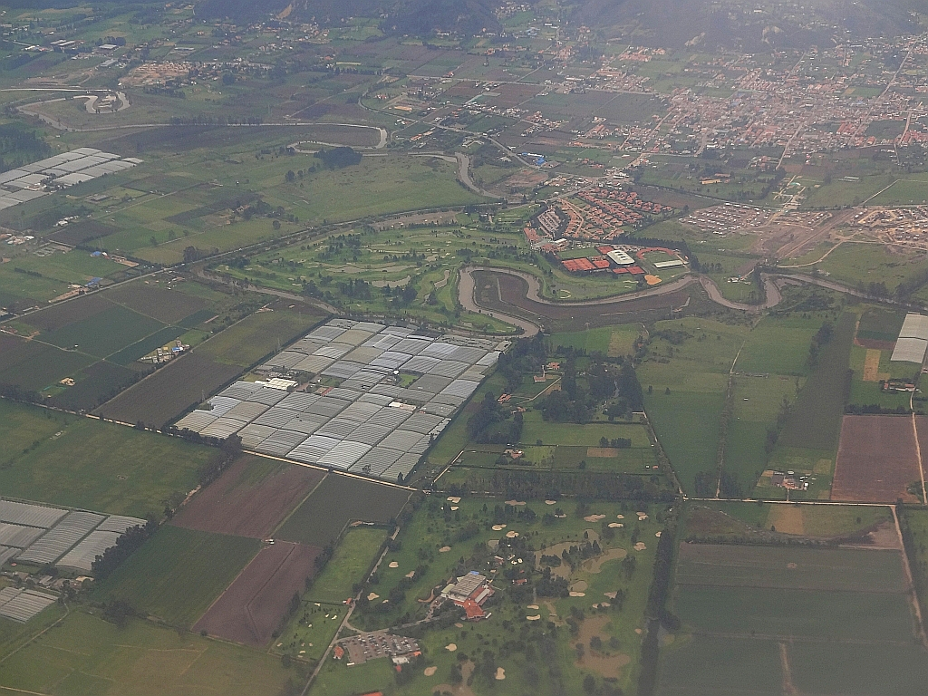 Aerial view of the meandering Bogotá River separating Cota, Cundinamarca from Bogotá